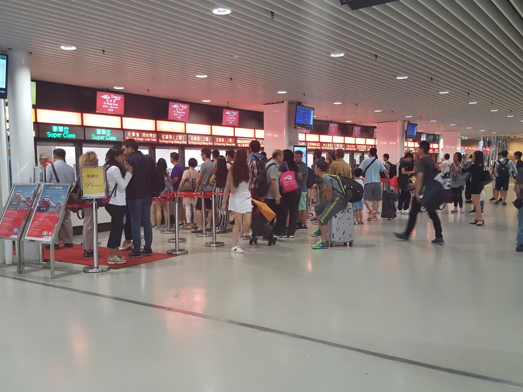 Ticket Office at Macau Ferry Terminal